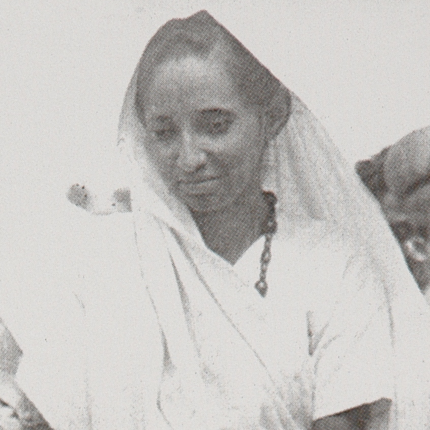 Mithuben Petit at Dandi, South Gujarat, while Gandhi pick up salt on the beach at the end of the Salt March, 5 April 1930.